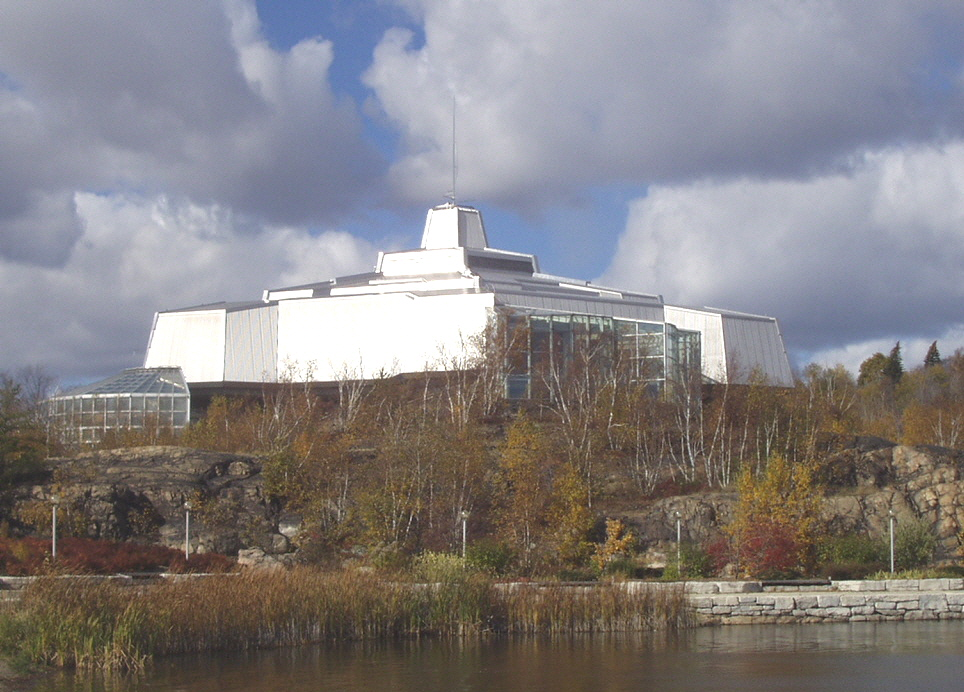 Self-taken photo.